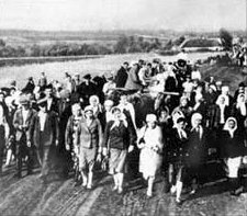 Ukrainians from Cherkashchyna being deported to Nazi Germany to serve as a slave labor force, 1942. Likely, the Soviet propaganda photo; no Germans are present. Purpose of gathering cannot be established based on image alone.